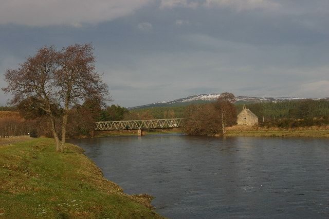 Bridge over River Spey. Looking N from position